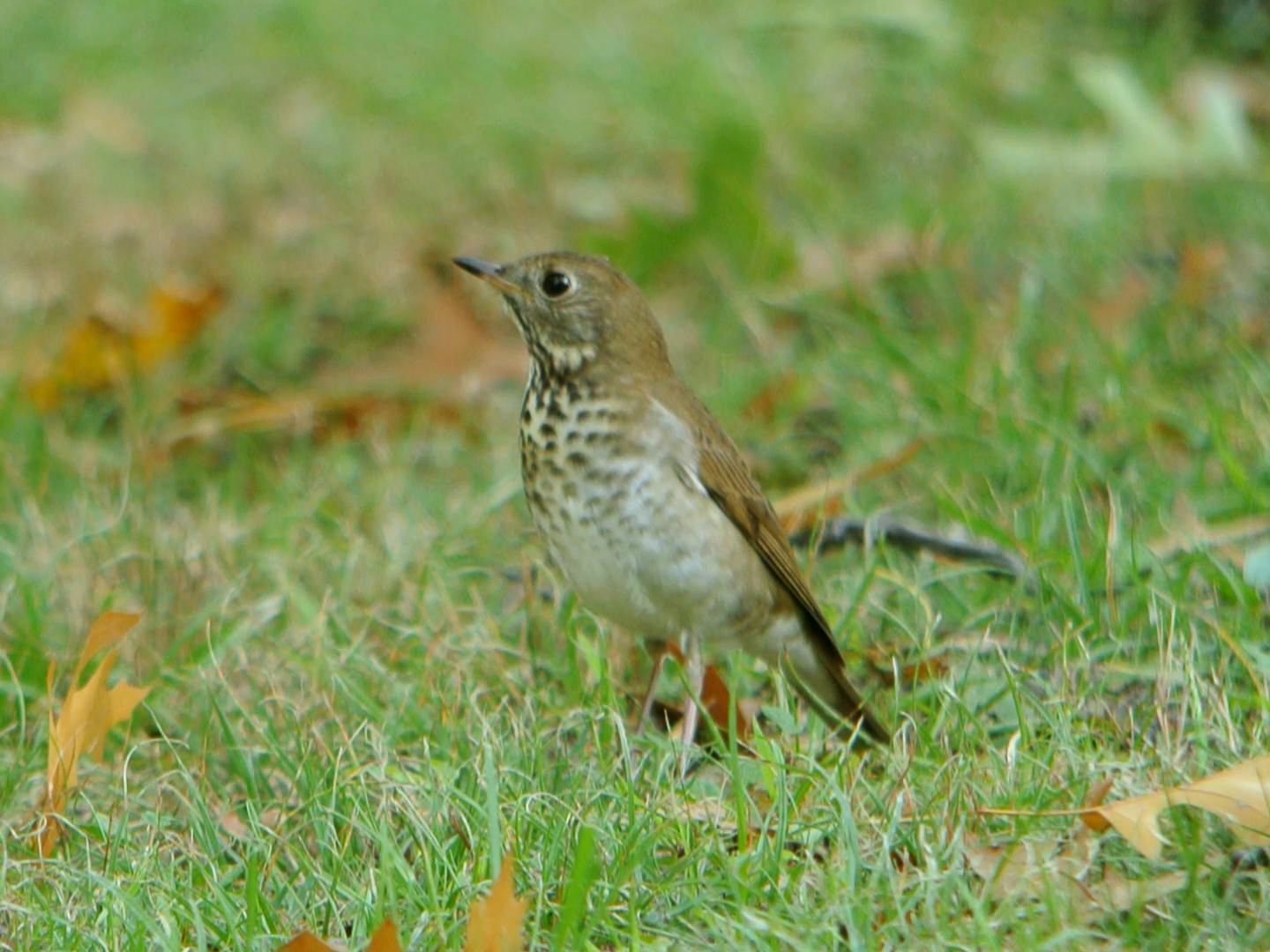 Gray-cheeked Thrush Catharus minimus Tower Grove Park, St. Louis, Missouri